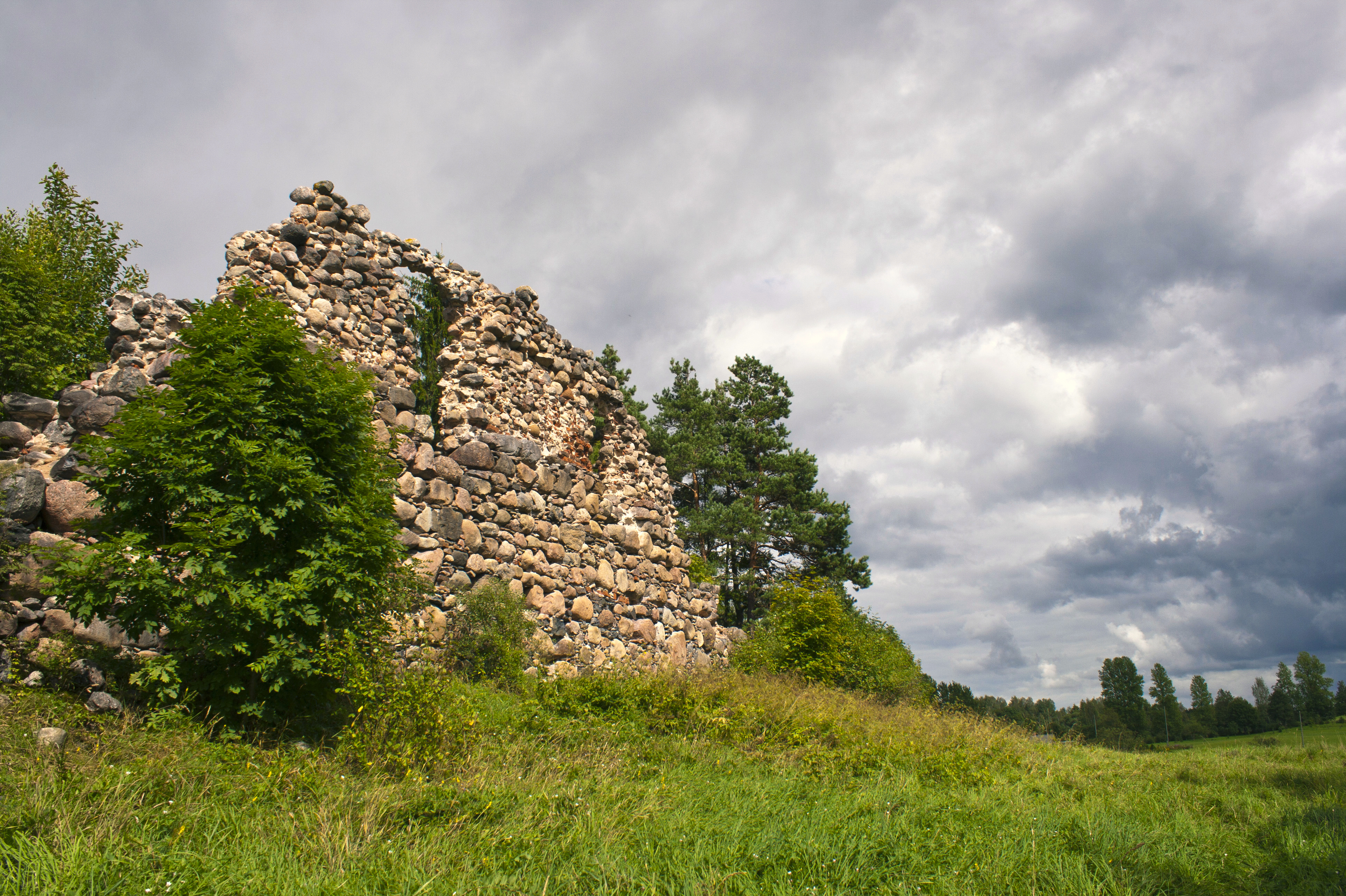 Vecpiebalga Castle ruins